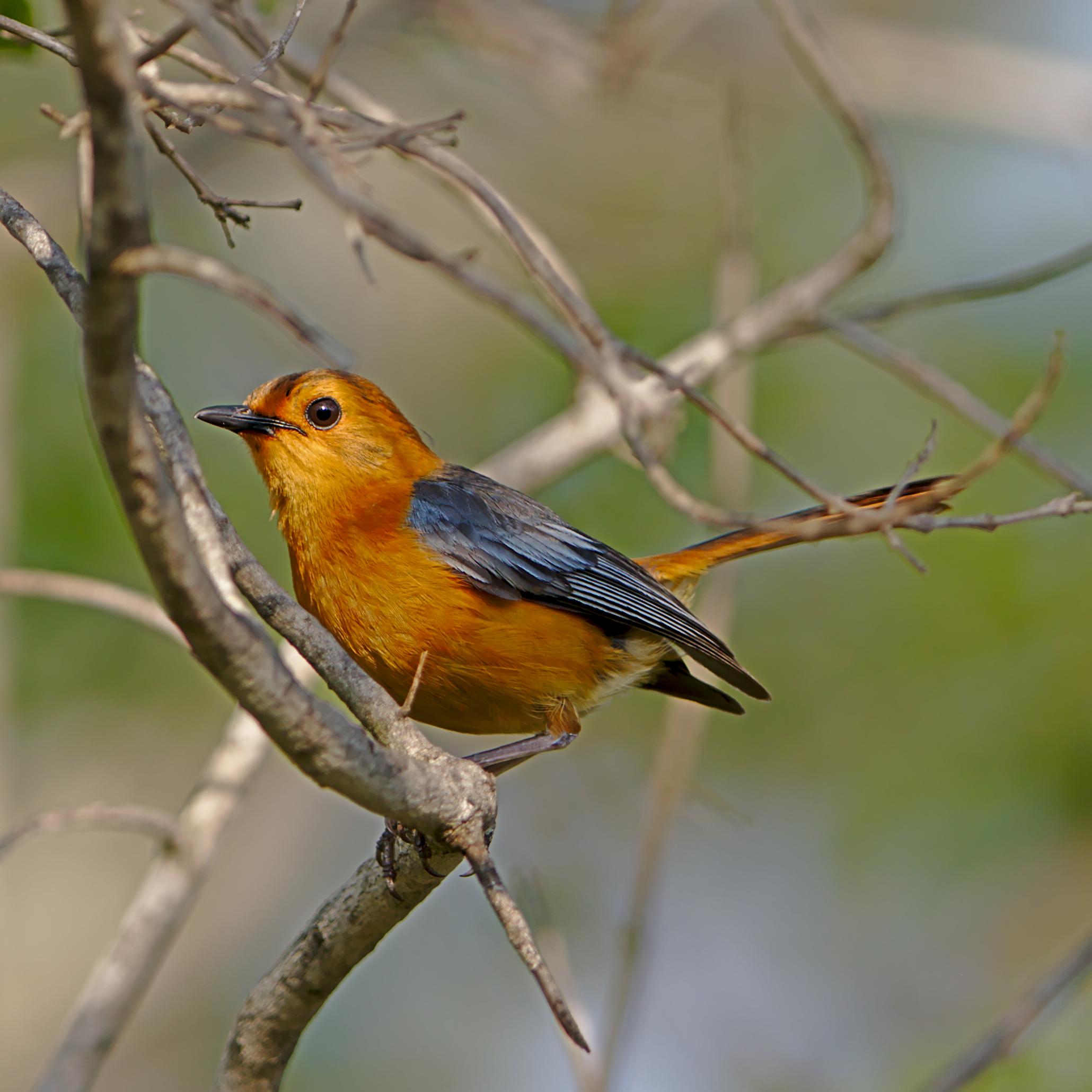 Red-capped robin-chat (or Natal robin), Cossypha natalensis, at Ithala Game Reserve, Kwa Zulu-Natal, South Africa